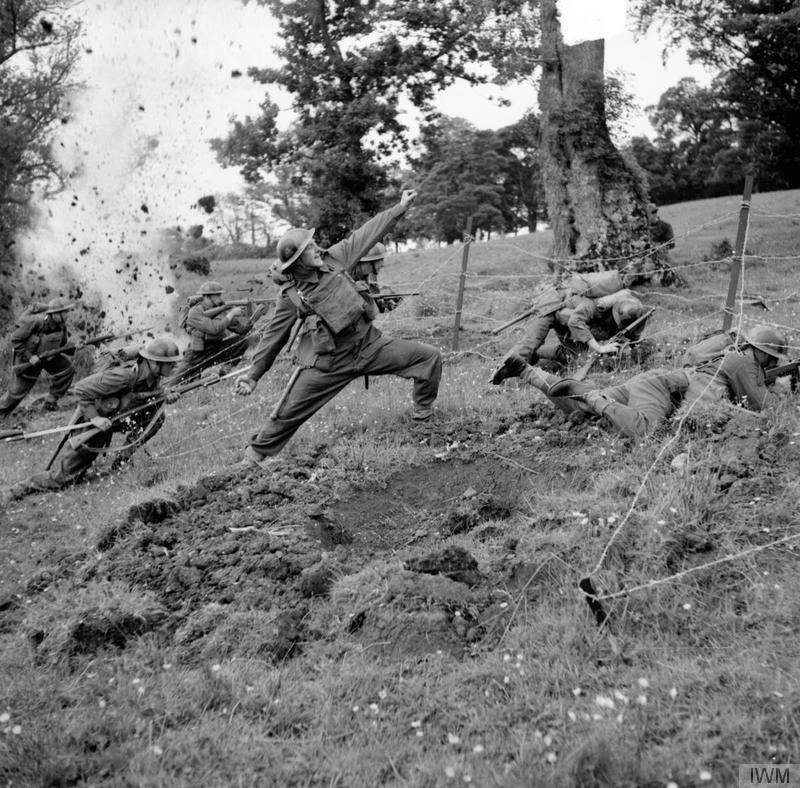 Men of the 6th Royal Berkshires (of the 61st Infantry Division) hurl grenades and advance 'under fire' during realistic battle training at Coleraine in Northern Ireland, 16 June 1941.